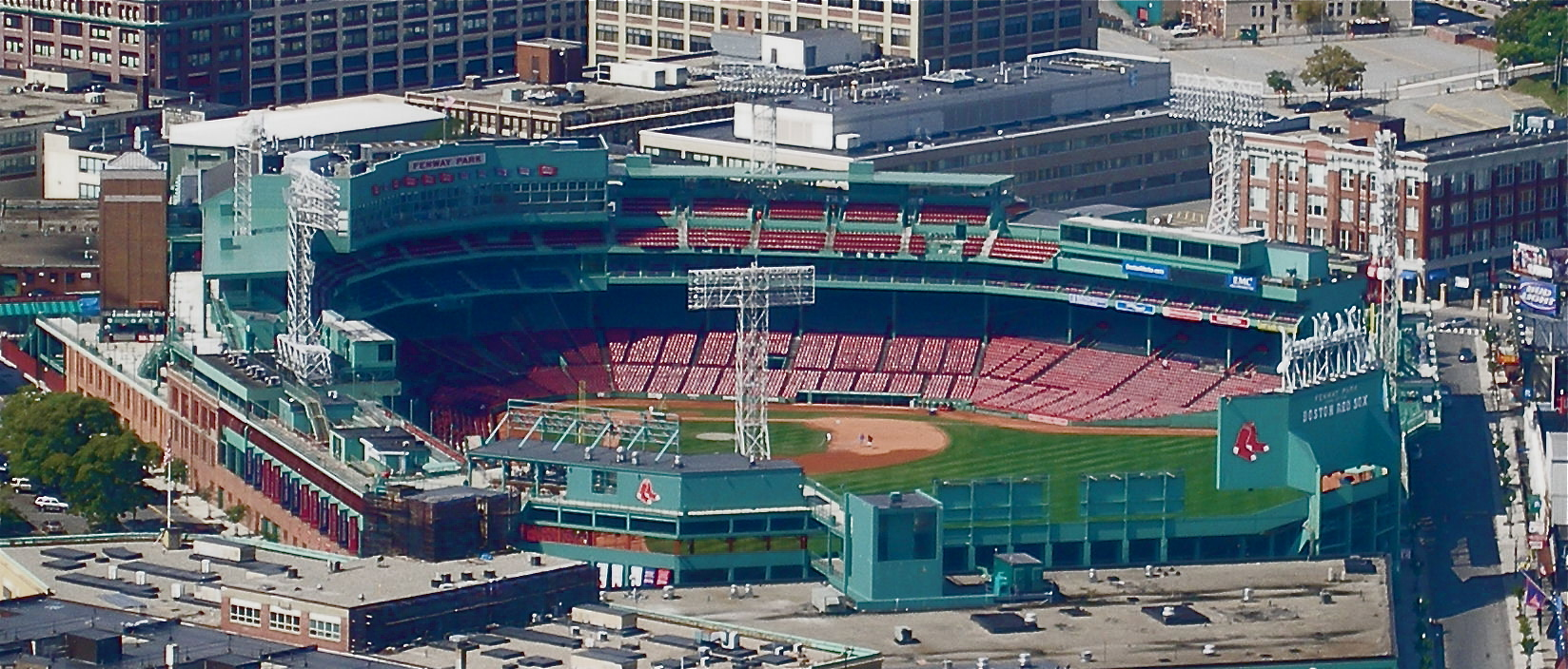 19:29, 6 September 2006 . . Aido2002 . . 1648×704 (610,487 bytes) (Photo taken by Aidan Siegel. I took this photo from the Skywalk at the top of Prudential Tower. The license I released it under says that anyone may use the photo, as long as they give me credit for the photo, and if you edit this photo, you must still give me credit for taking the original one. However, I may waive this license, if you email me (see my user:aido2002, and tell me what you want it for. If you want it for a cause that I wish to waive this for, I will.)